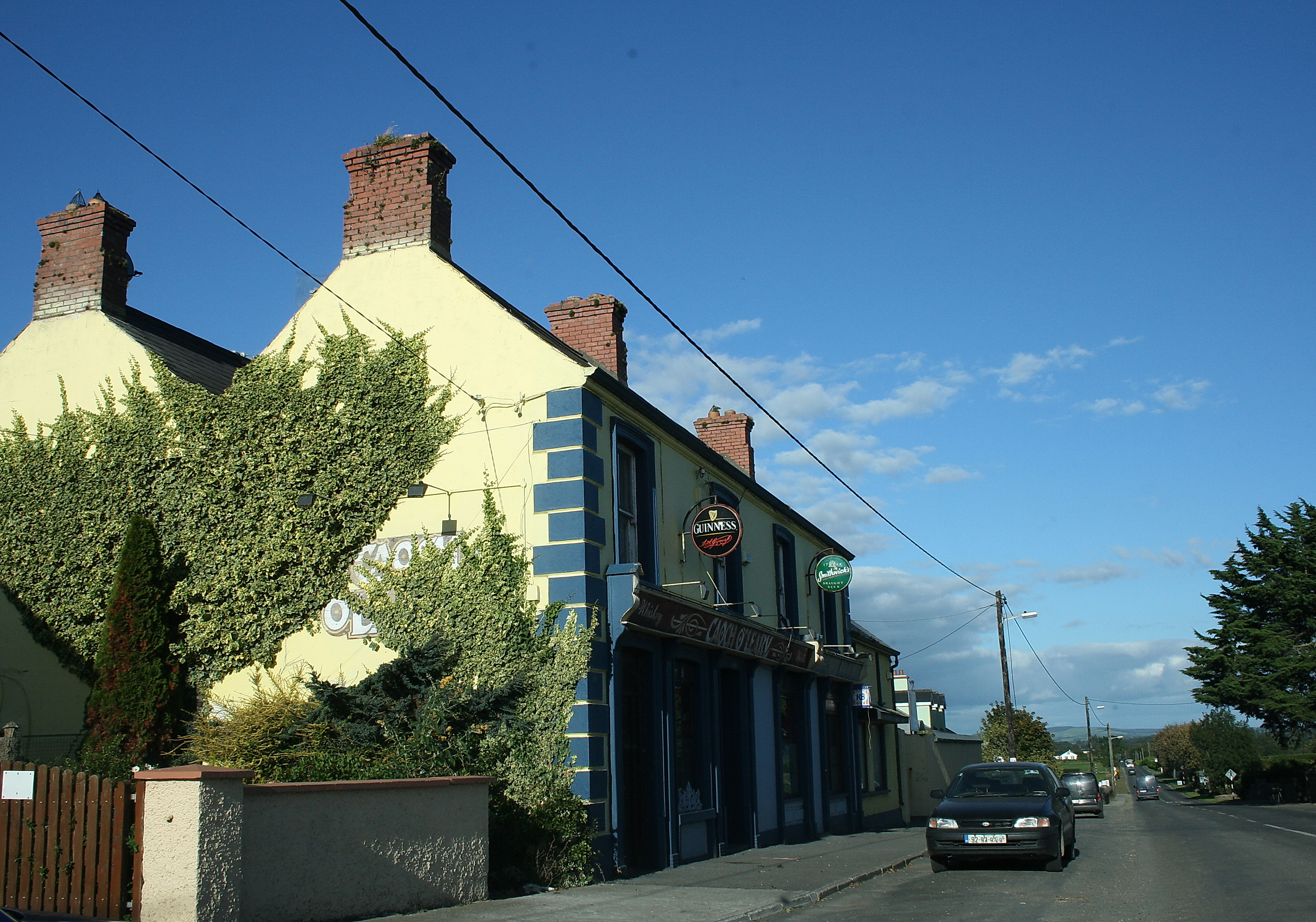 Ballycolla, County laois, near to Ballycolla and Gully Bridge, Laois, Ireland. Coach O'Leary pub.